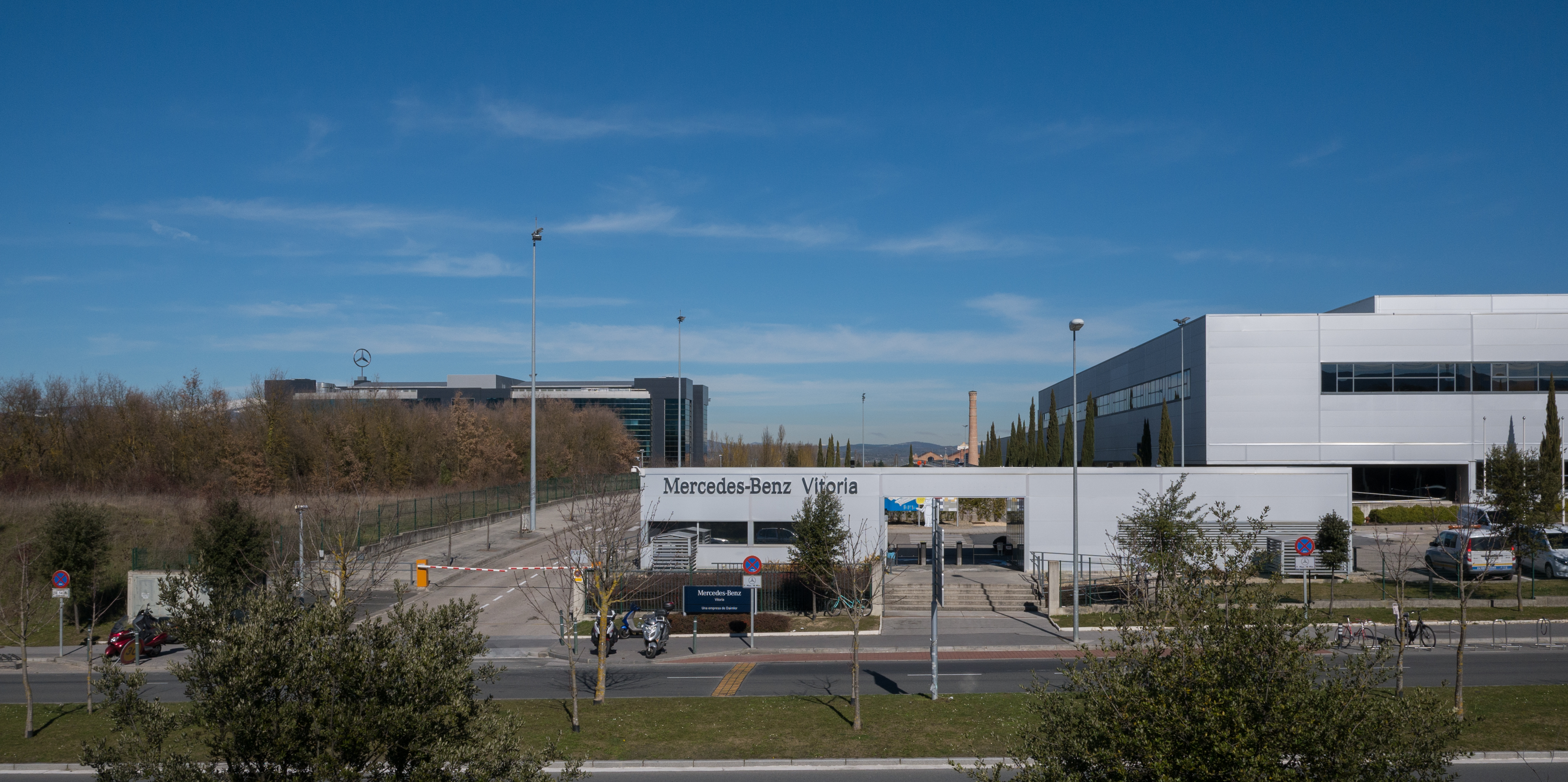 Entrance of the Mercedes-Benz automobile plant in Vitoria-Gasteiz. Basque Country, Spain